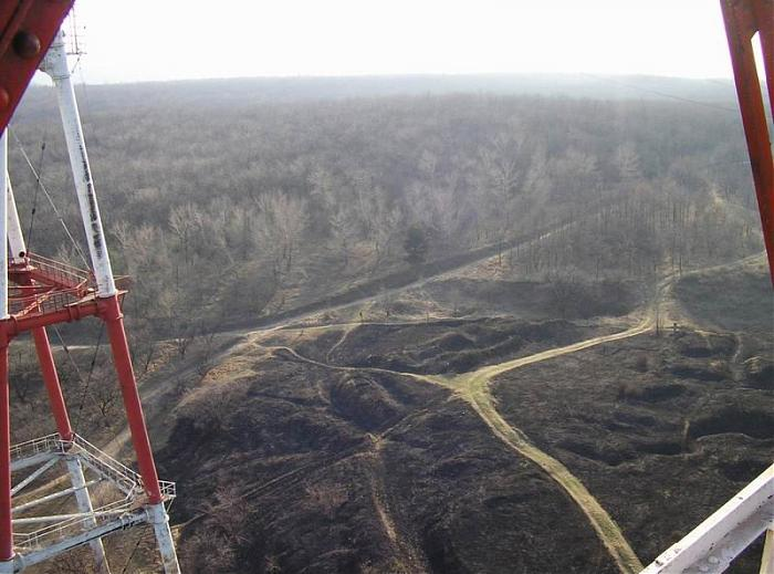 Sovutynske Hill Fort on Khortytsia island, Zaporizhia, Ukraine